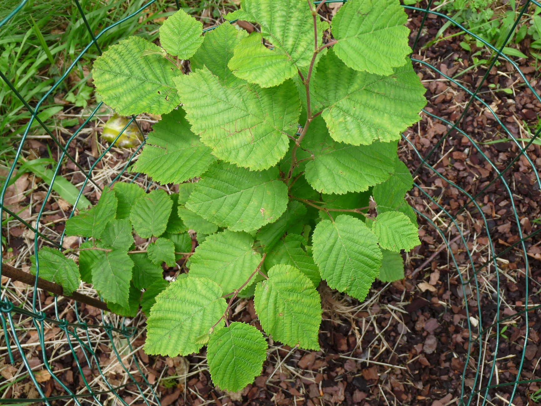 Young plant Ostryopsis davidiana